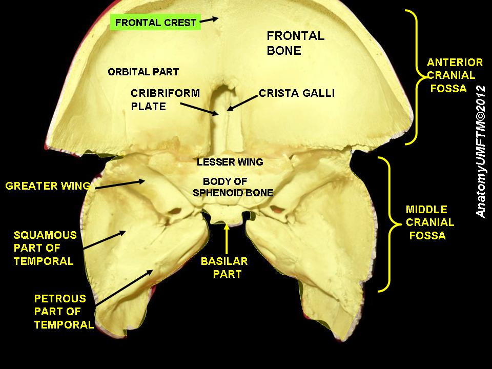 Anatomical dissections